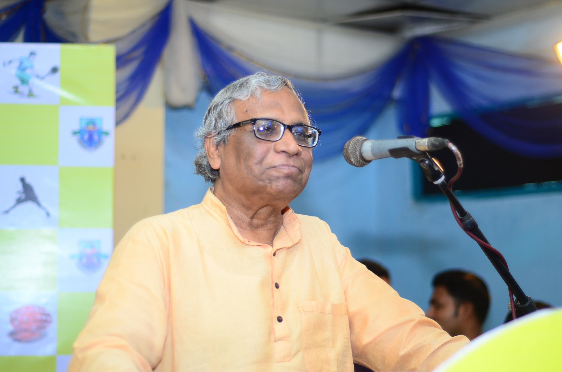 Professor Dr. Anupam Sen, on a prize giving ceremony organized by Premier University.